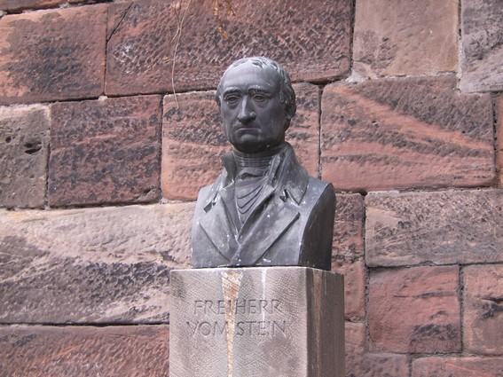 Baron vom Stein, bust at Marburg Alte Universität (Old University)